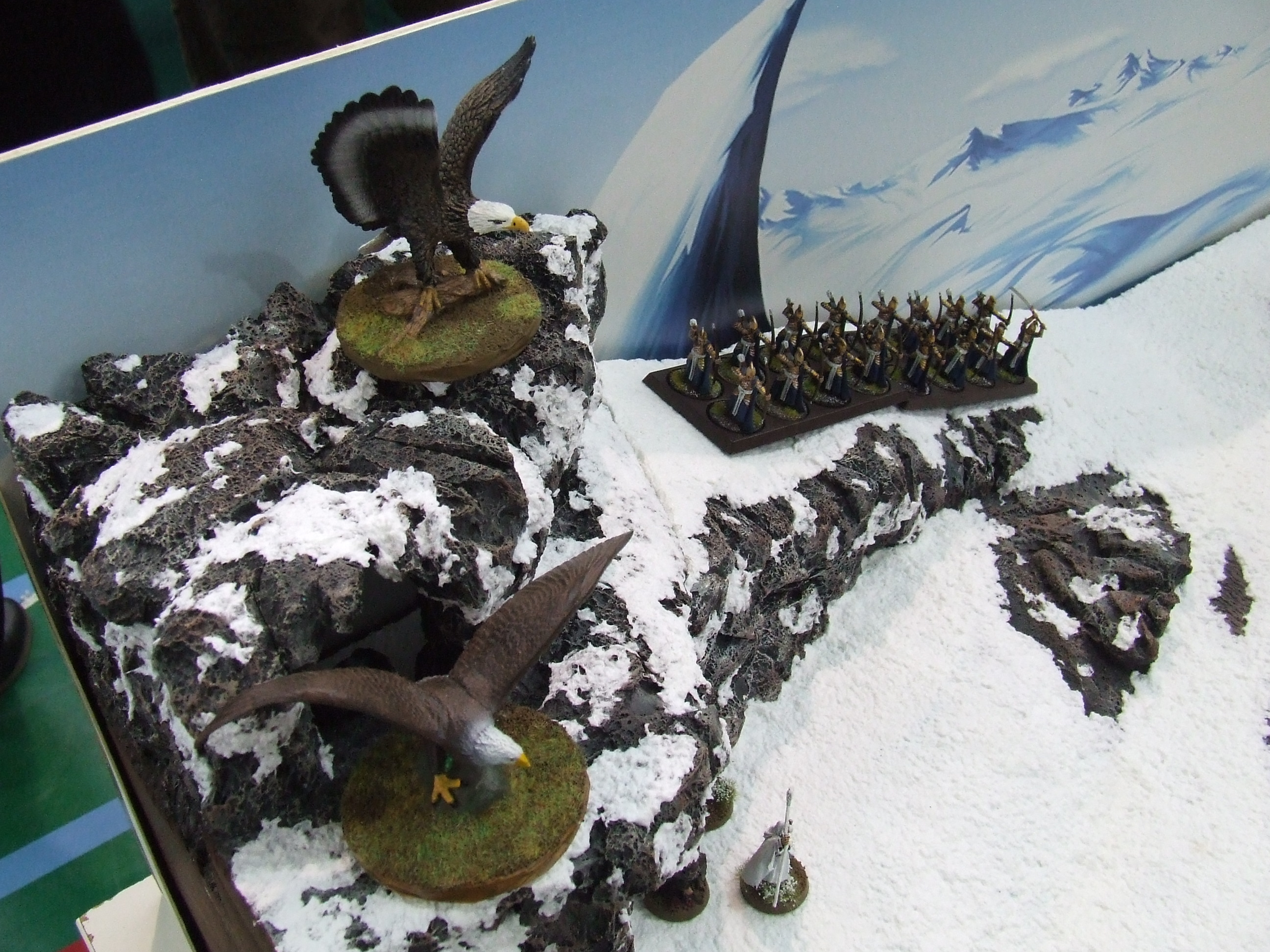 Games Day 2015, Budapest